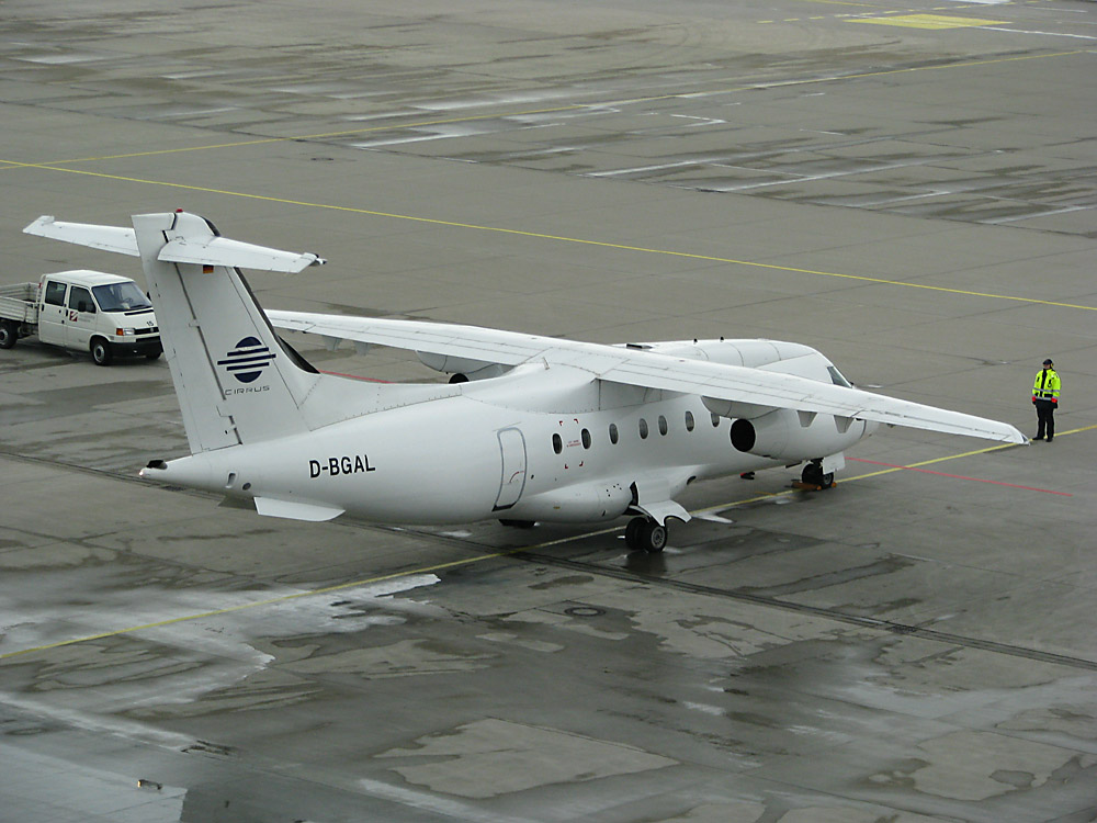 Ramp Agent at work in Dresden Airport.